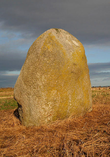 The Lochmaben Stone In a stubble field at the edge of the square and the only remaining stone above ground of a former stone circle.